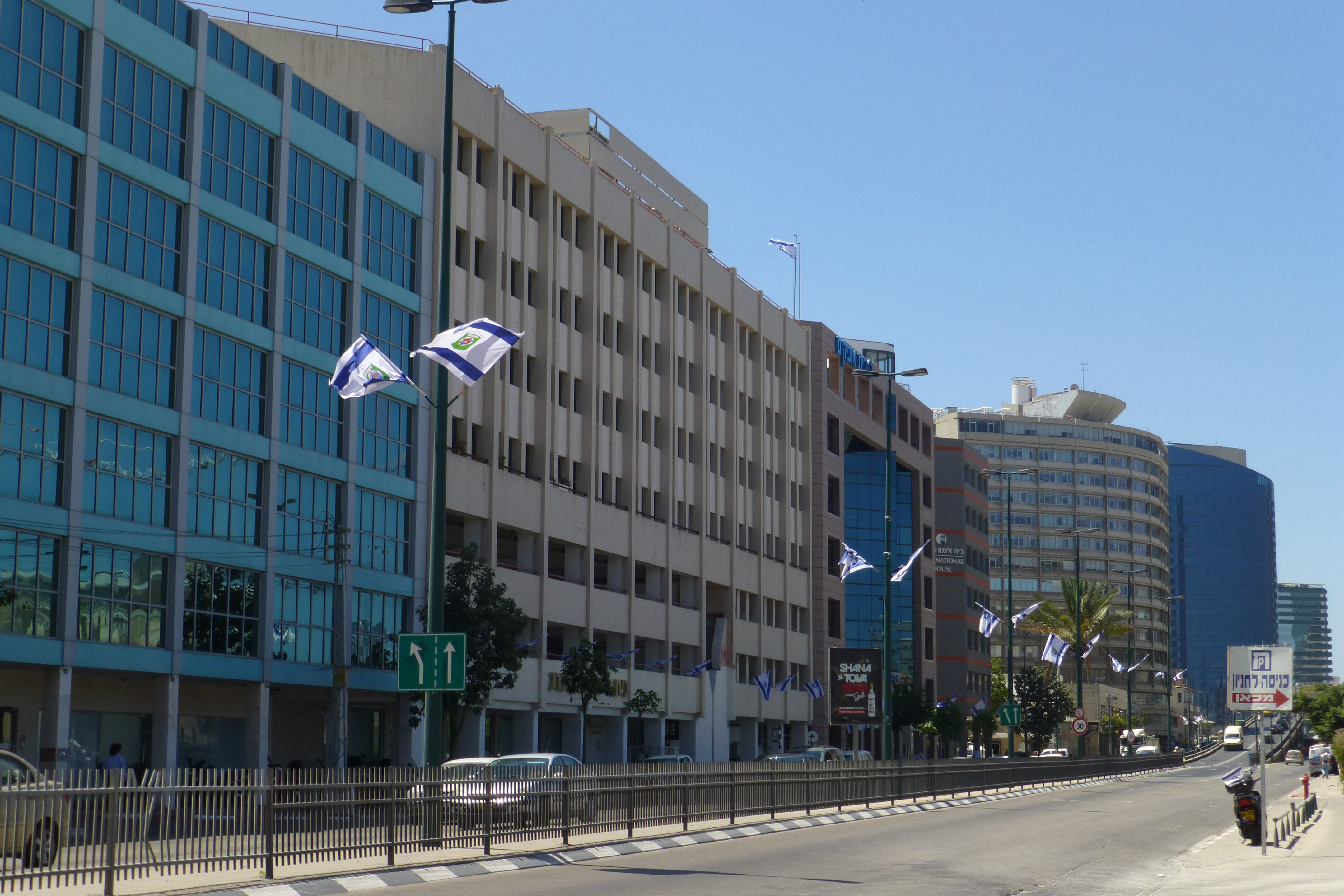 Maariv bridge